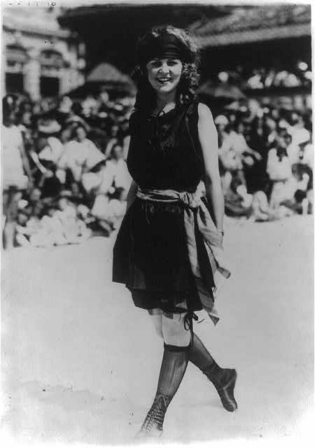 Margaret Gorman, first prize beauty, Atlantic City, New Jersey